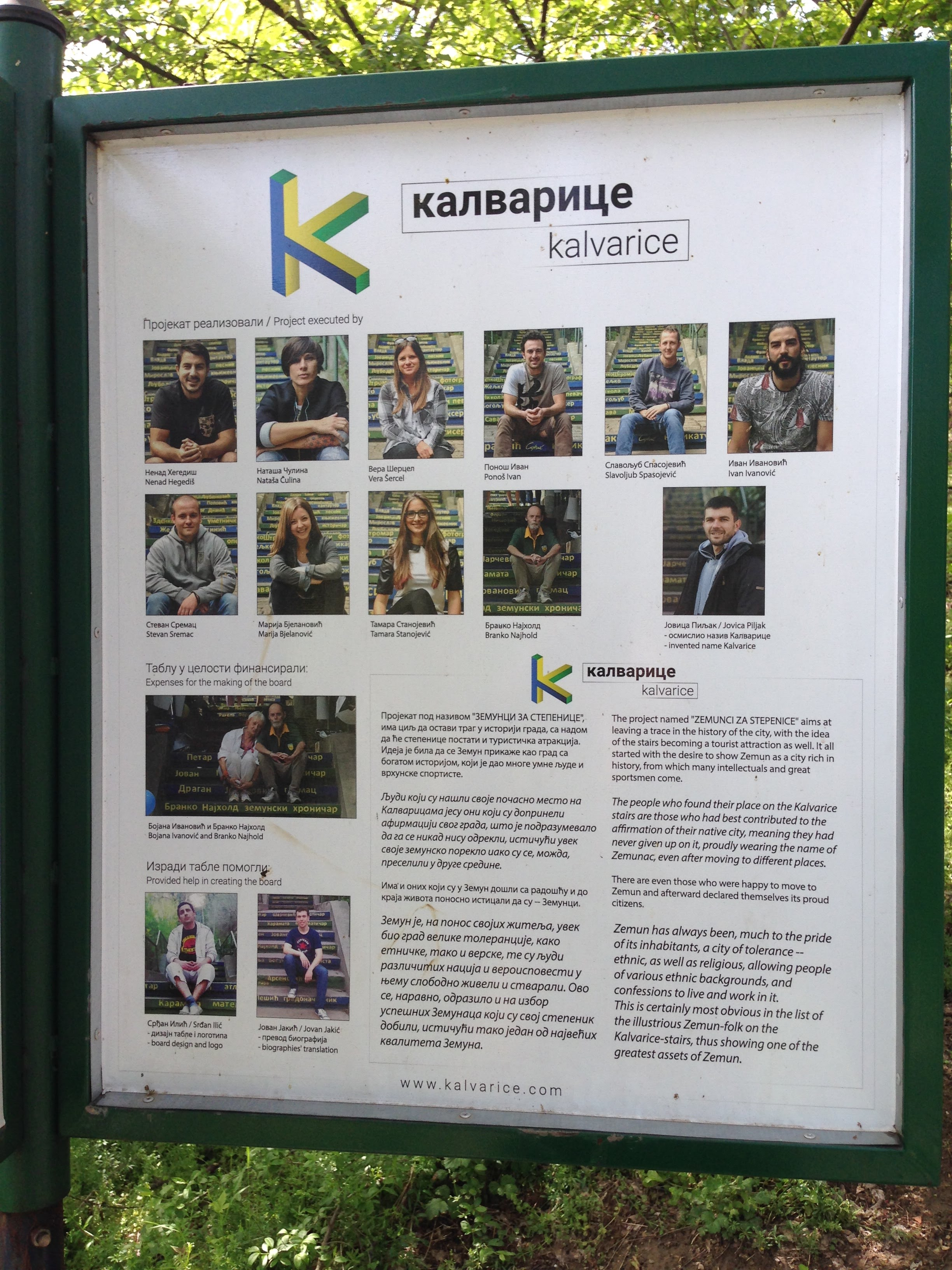 Calvary Park, Zemun, Serbia